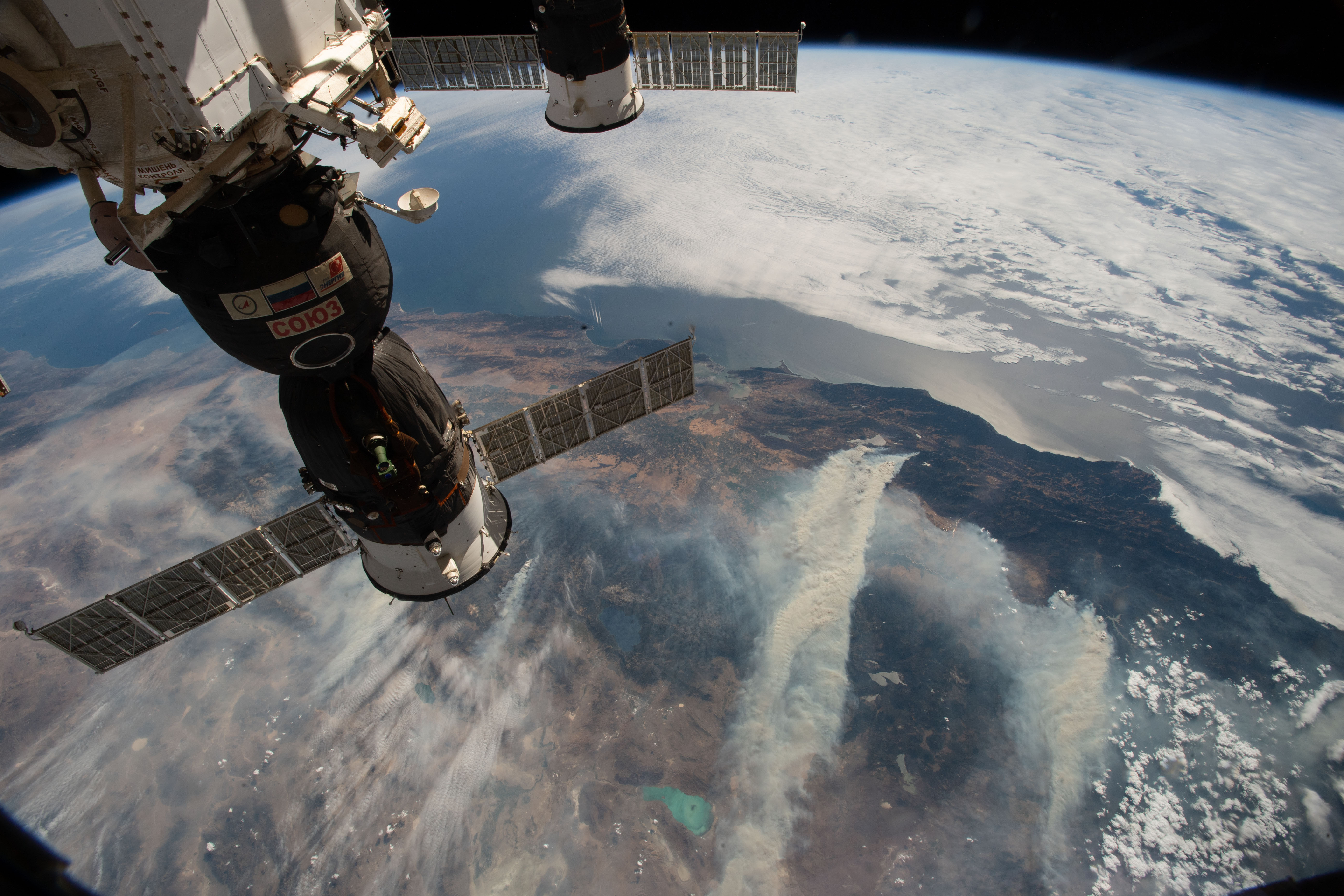 Wildfires are seen in northern California in the Mendocino National Forest and near the San Francisco Bay Area as the International Space Station orbited 252 miles above the United States.